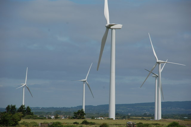 Wind turbines near Kilmore Quay. Love them or hate them “windfarms” are now part of the landscape. Whatever the view it has to be admitted that they are eyecatching. This one is at Killag near Kilmore Quay. There was a moderate wind but the blades remained almost motionless – can anyone explain?